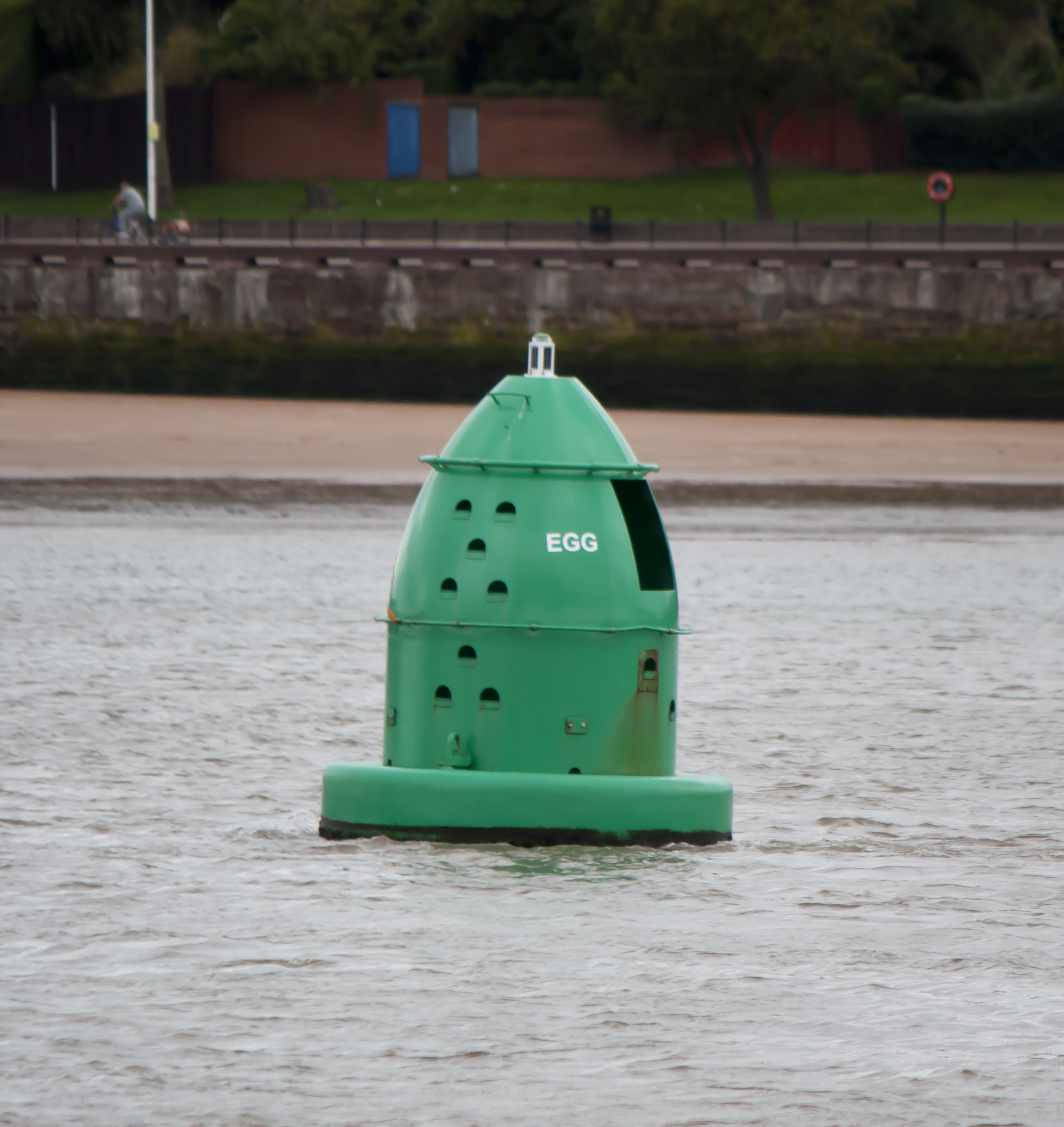 EGG buoy located near Eggremont, Wallasey on the River Mersey.